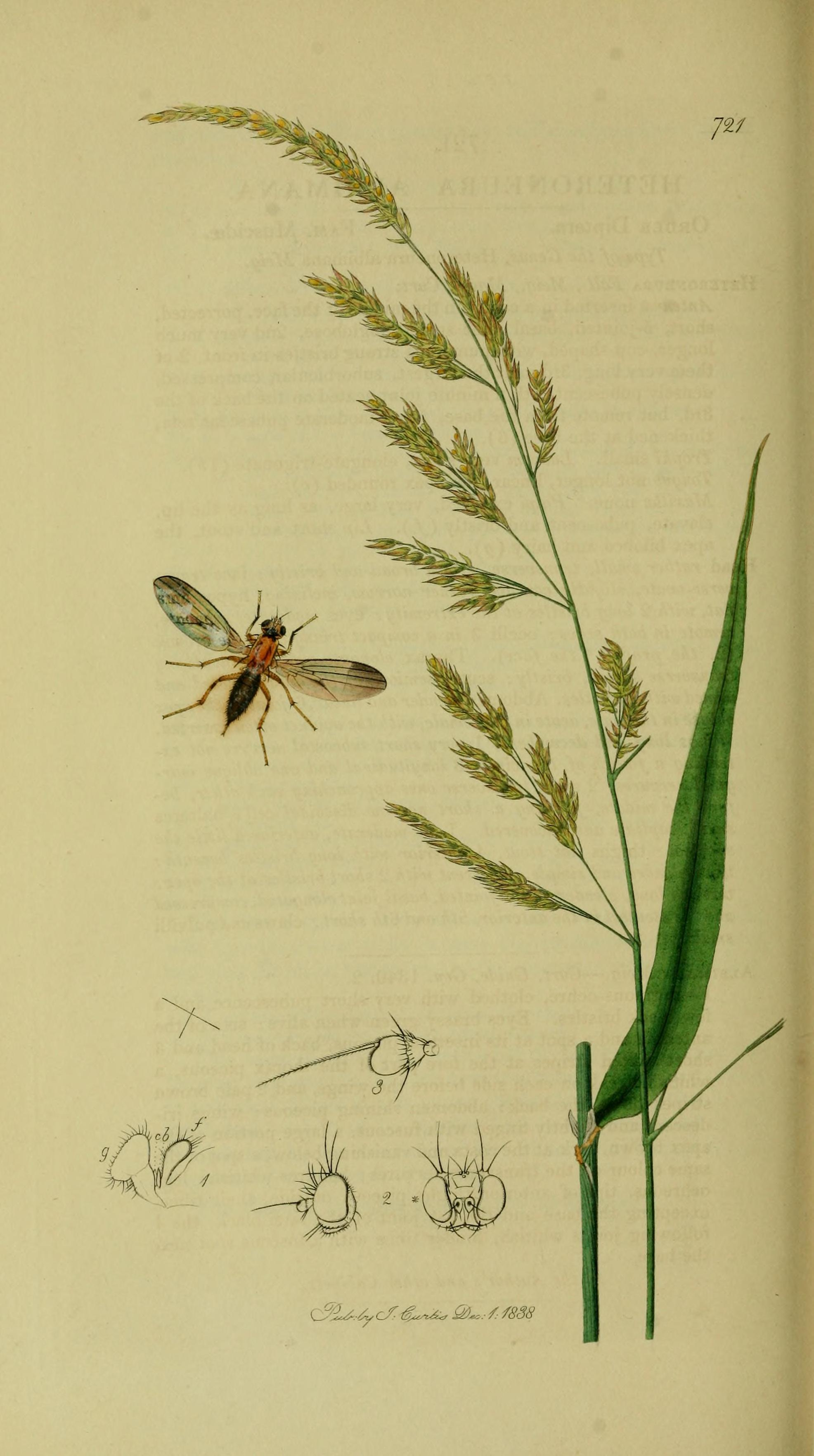 John Curtis British Entomology (1824-1840) Folio 721 Diptera: Heteroneura albimana = Clusiodes albimanus (Meigen, 1830).The plant is Phalaris arundinacea (Reed Canary Grass)